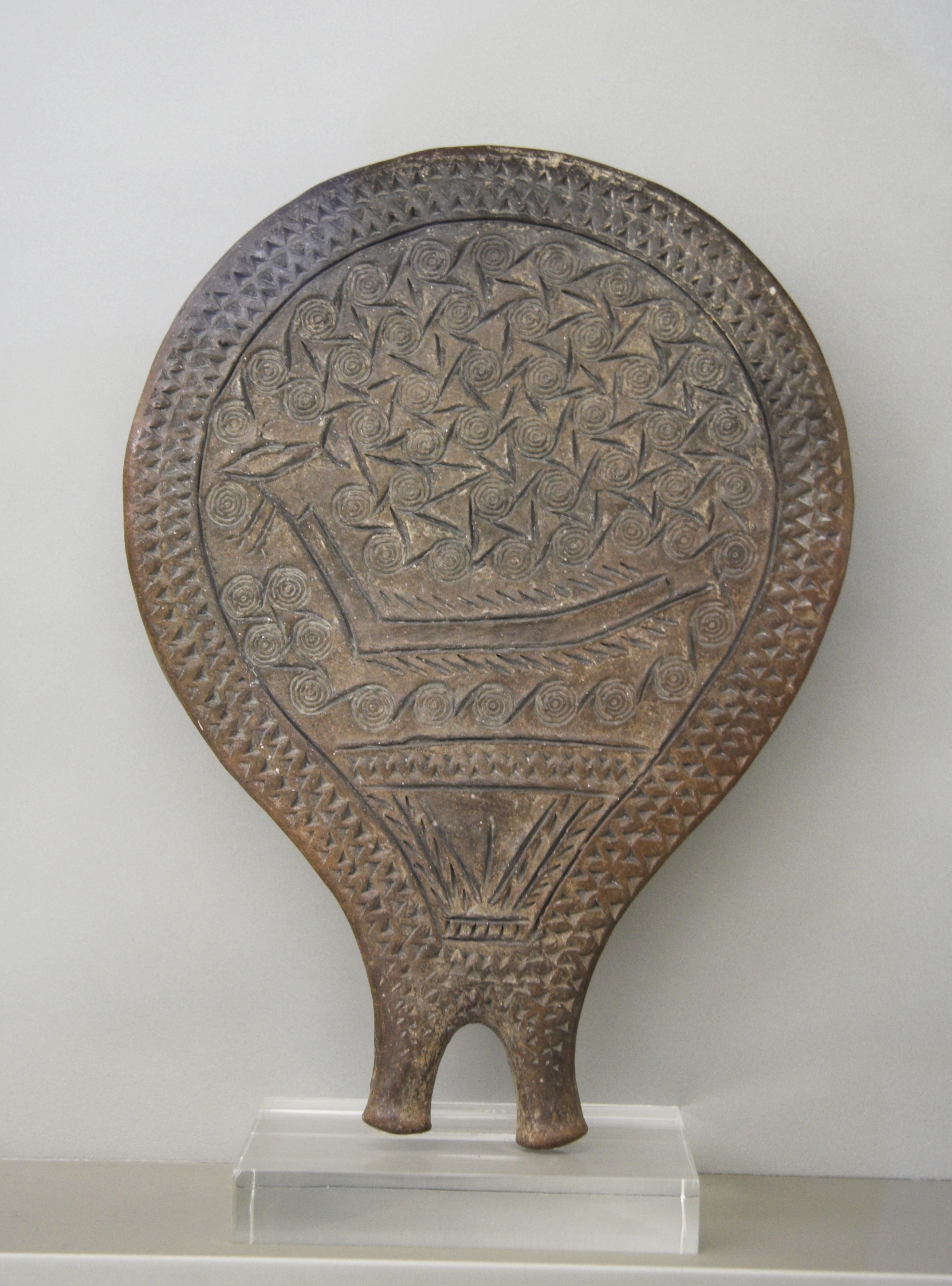 Clay "frying-pan" ("skillet“) vessel with incised decoration of a ship and fish. "Feminine" type. Found at Chalandriani on Syros island. Early cycladic II period (Keros-Syros culture), 2800-2300 BC. National Archaeological Museum Athens, N 4974.